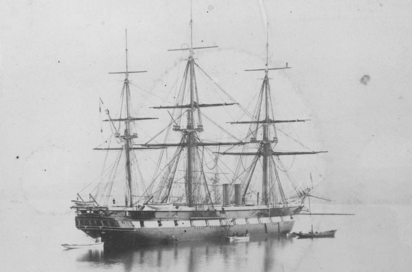 Three masted sailing ship H.M.S. Galatea, ca. 1868 Alfred, the Duke of Edinburgh was a naval officer and the H.M.S. Galatea was his first command. The Galatea was in Australian waters from October 1867 till June 1868 while the Duke completed the first royal tour of Australia. During this time he visted Brisbane for a week.